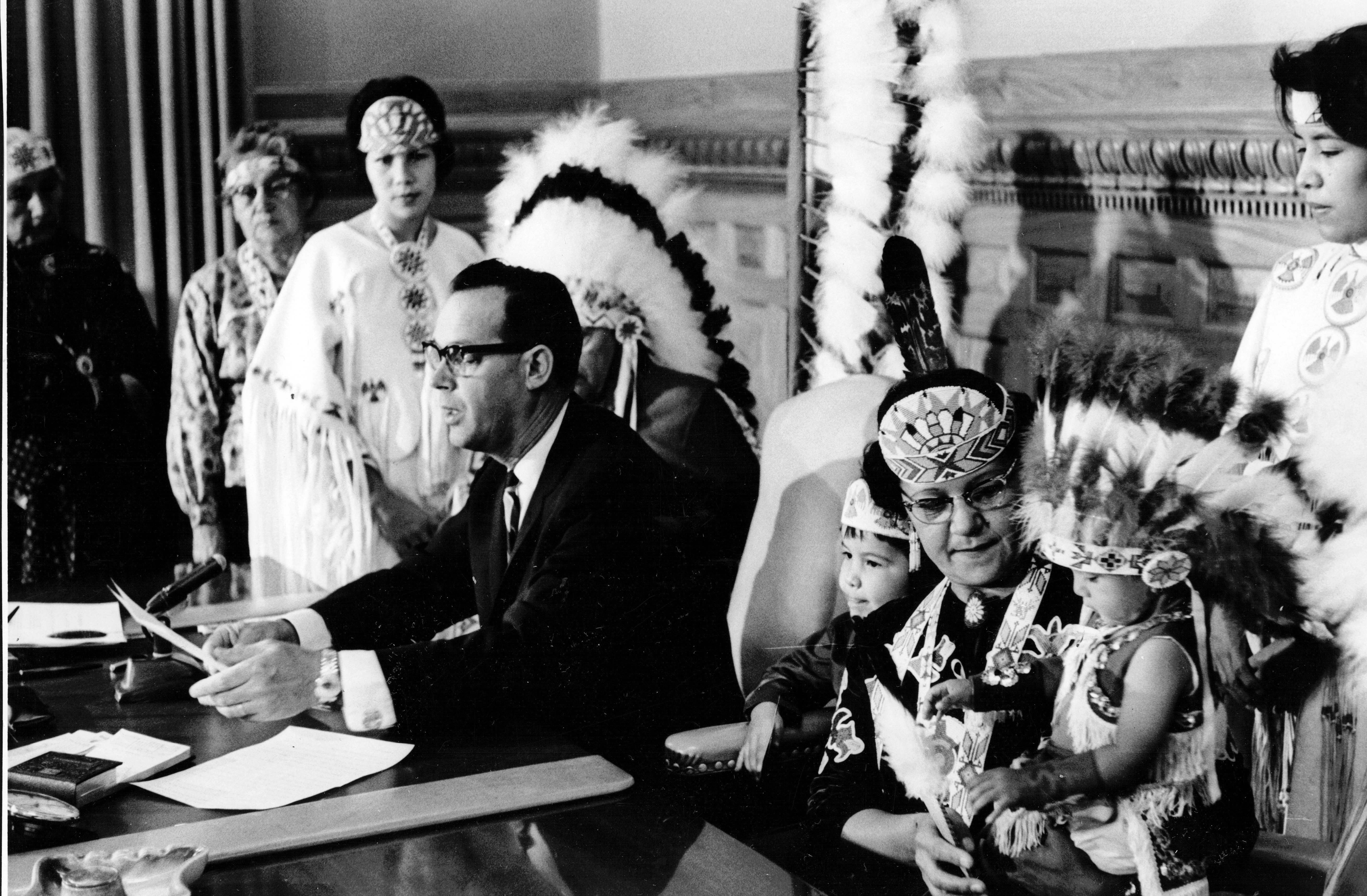 Kansas Governor John Anderson Jr 17 Sep 1964